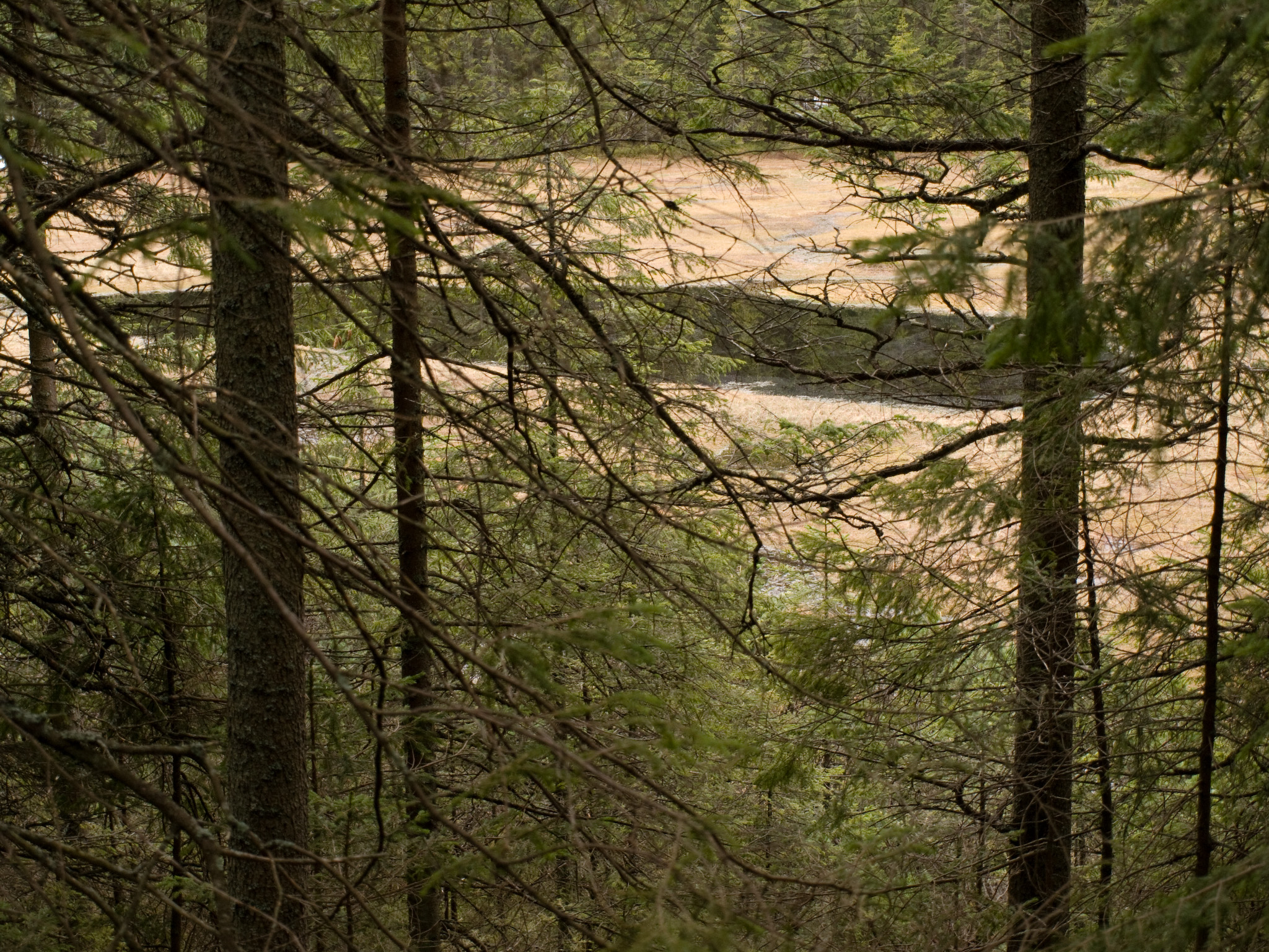 Toporowy Staw Wyżni